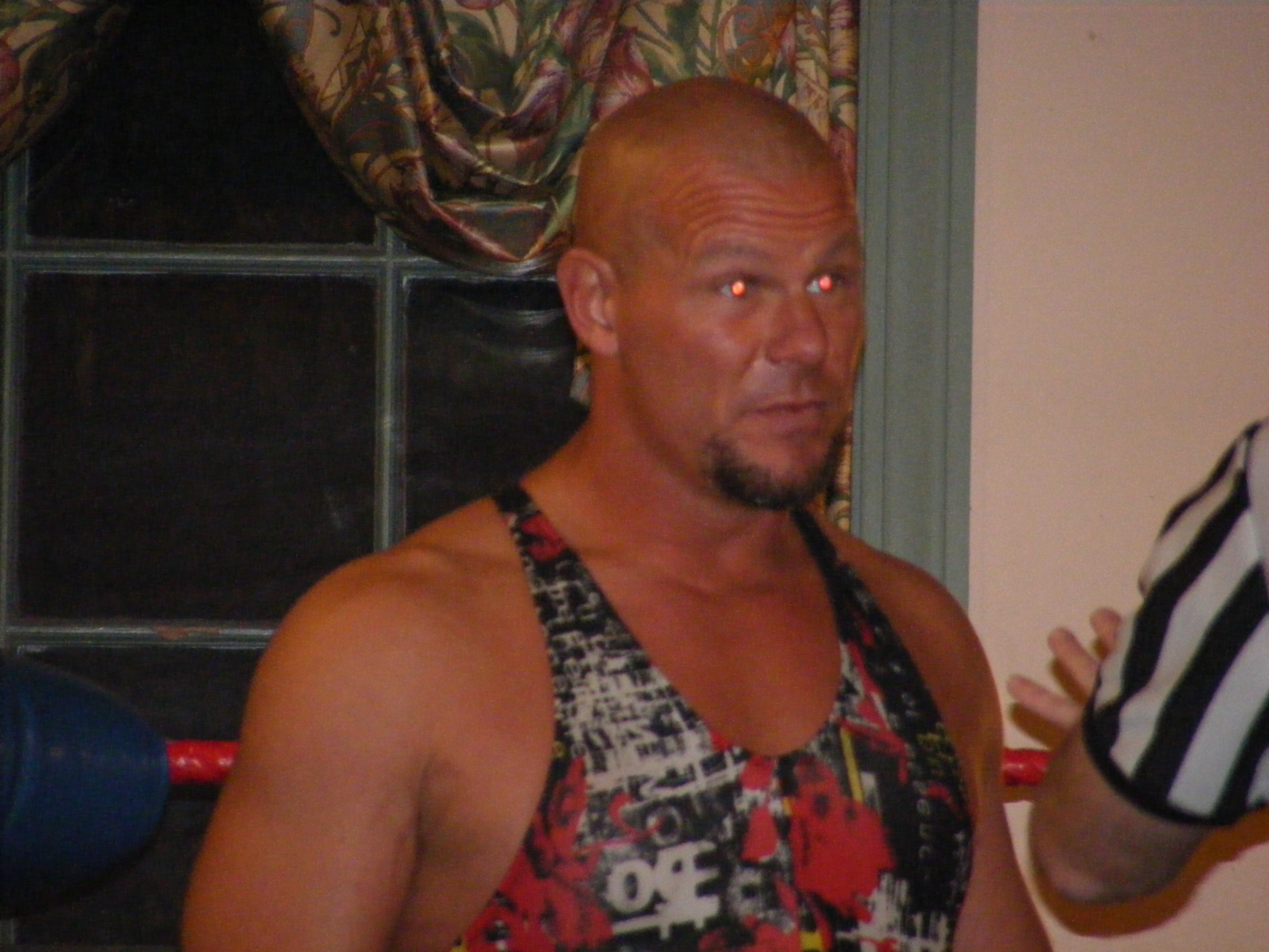 Maverick Wild in November 2010.